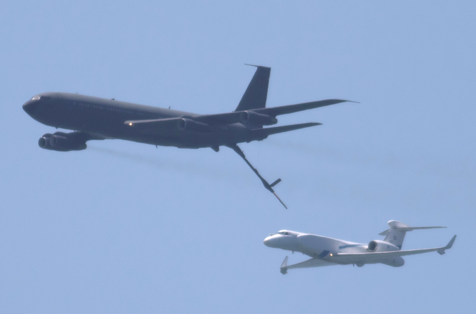 IAF Israel 2015 Independence Day flyover